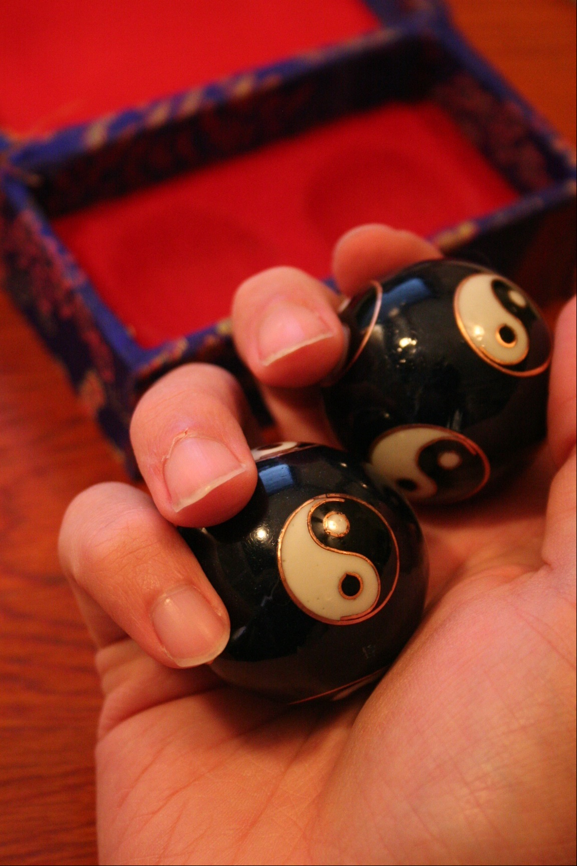 Two Baoding balls held in hand.